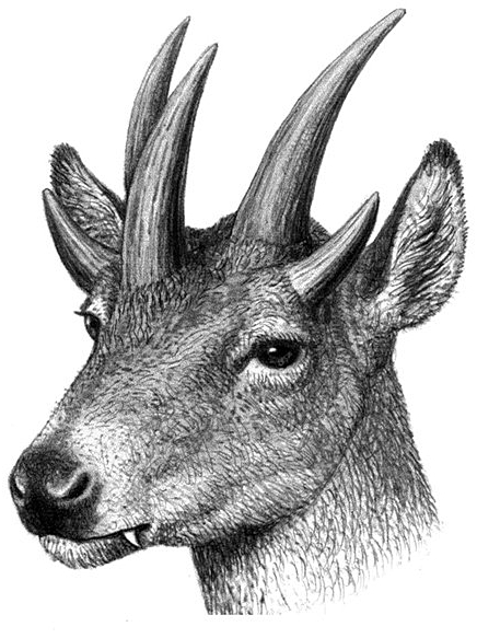 Figure 2: Hoplitomeryx and the insular fauna of Gargano. (A) Life reconstruction of Hoplitomeryx showing the presence of five cranial appendages (two paired postorbital ones, and an unpaired appendage projecting between the eyes on the caudal part of the nasals) and large, flaring sabre-like upper canines. Artwork by Mauricio Antón.